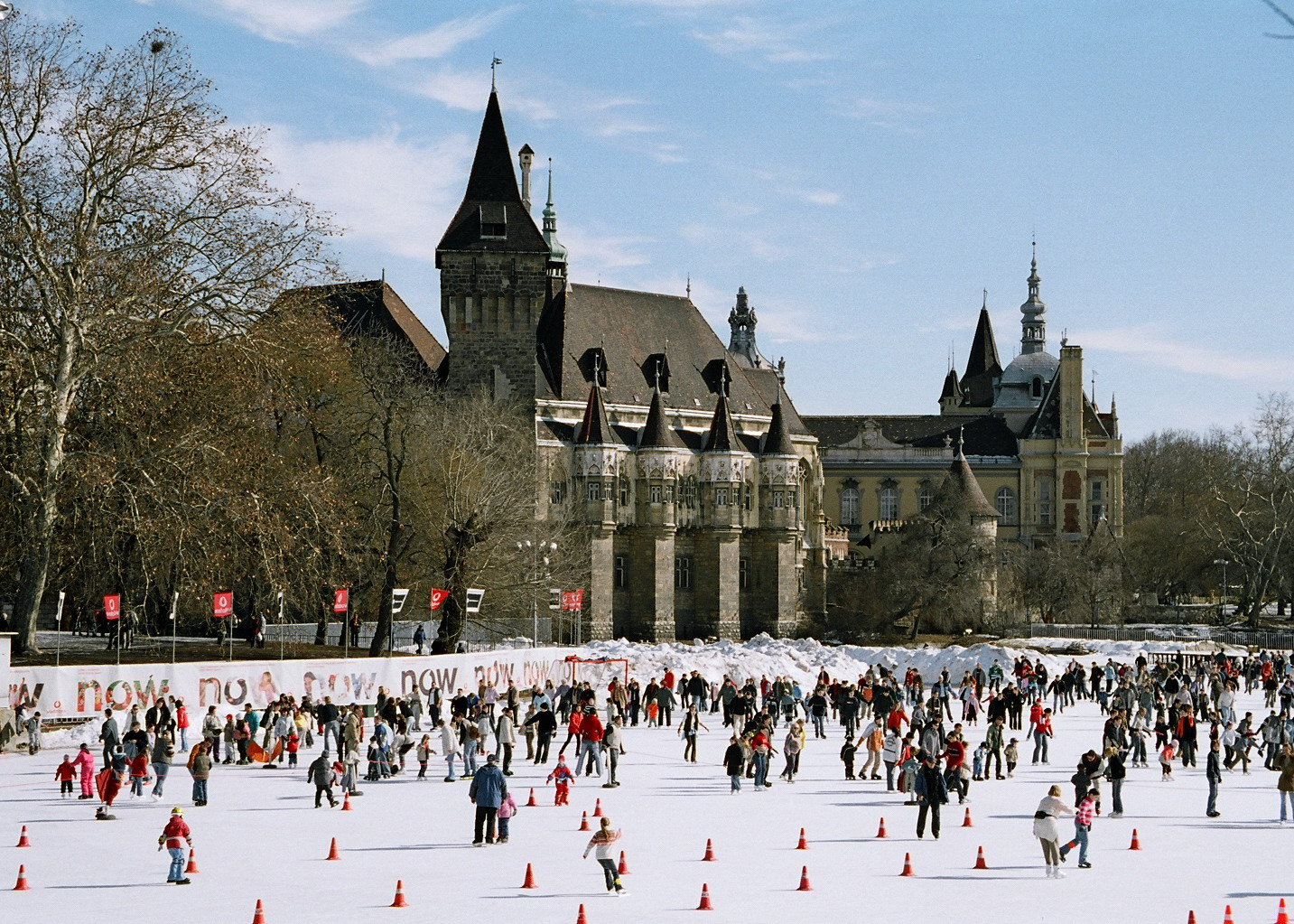 Mujegpalya Ice Rink in Budapest's City Park with Vajdahunyad Castle in the background